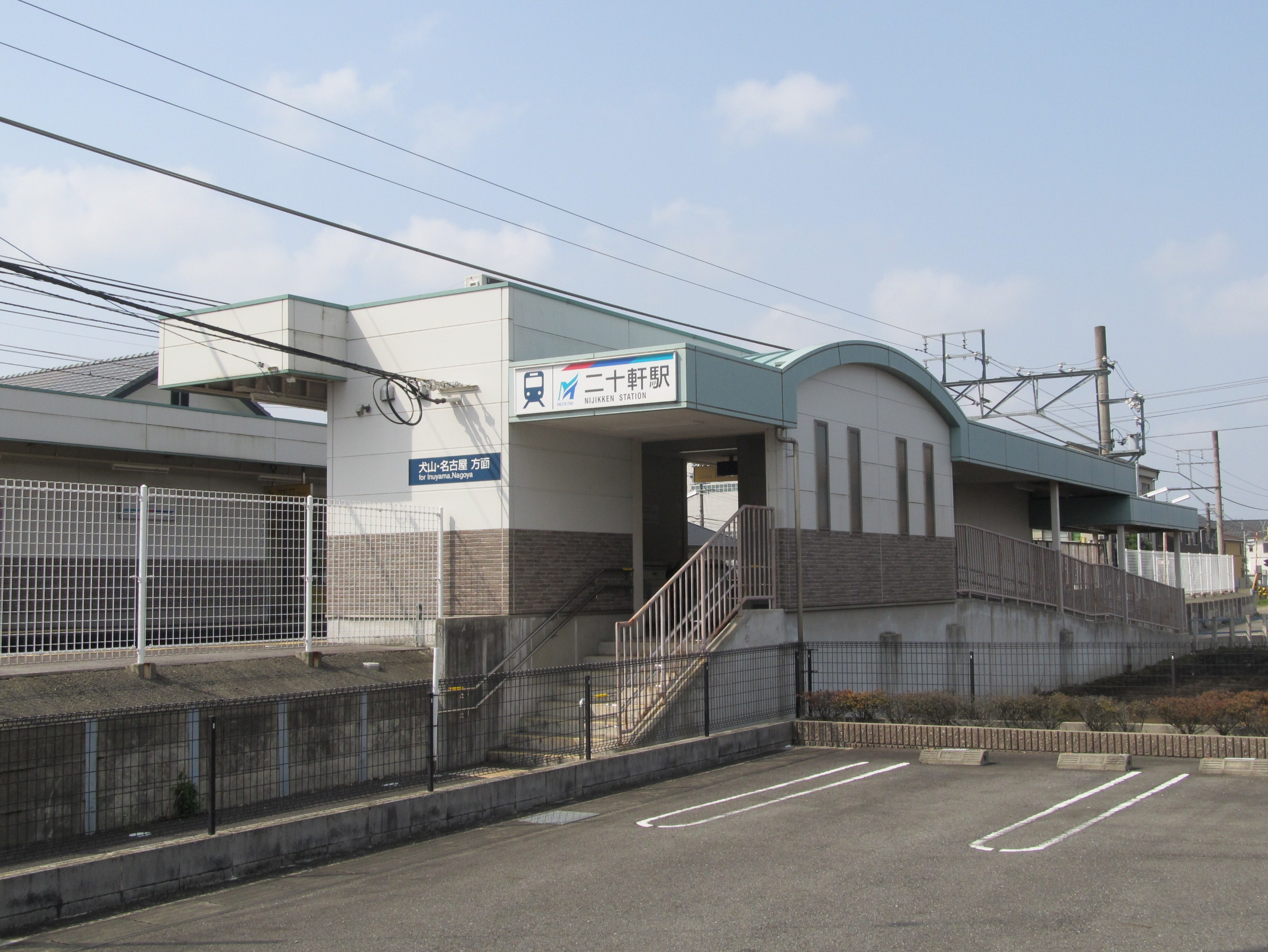 Nagoya Railroad Kakamigahara Line Nijikken Station Building (for Inuyama).